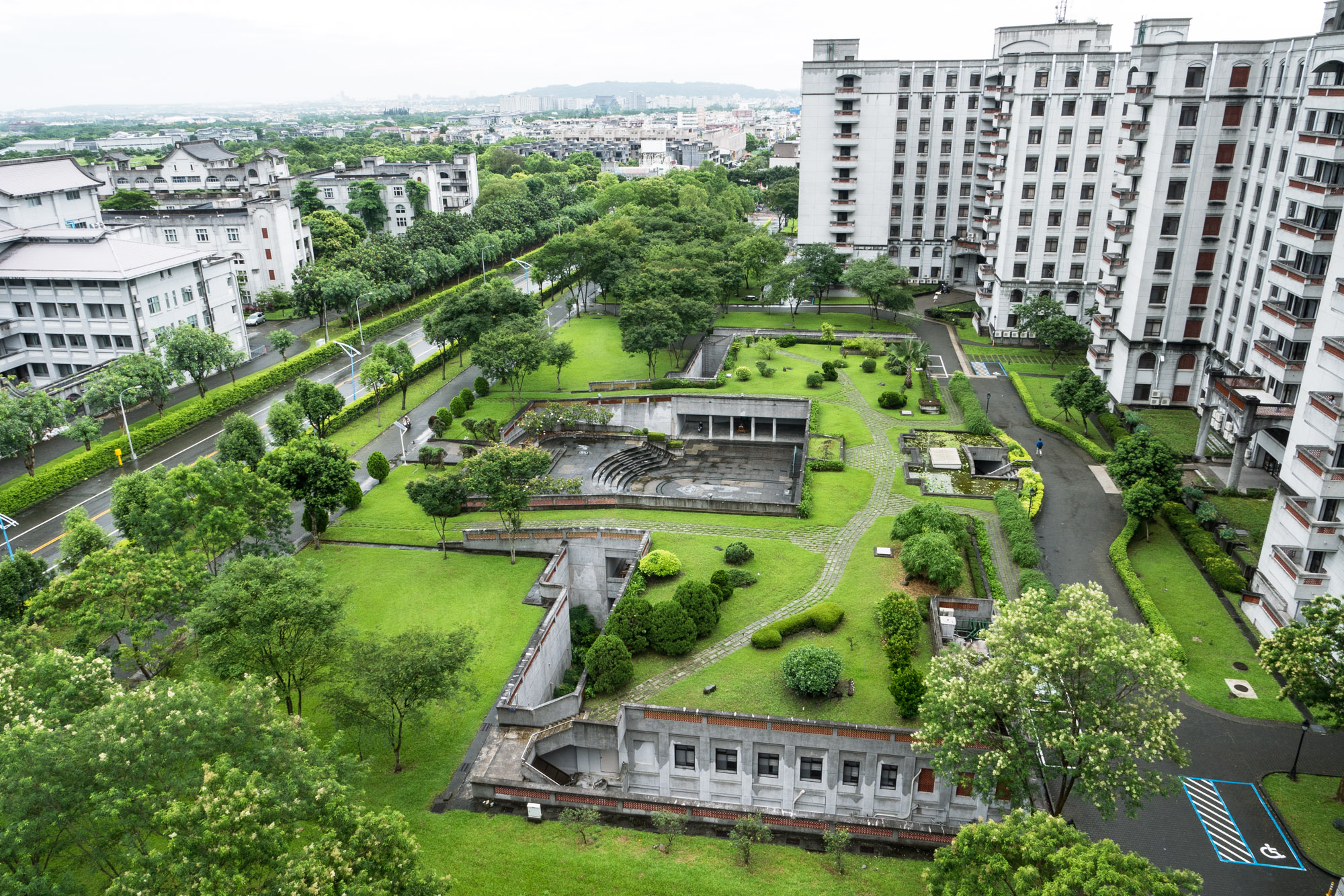 Dormitories of Tzu Chi University of Science and Technology